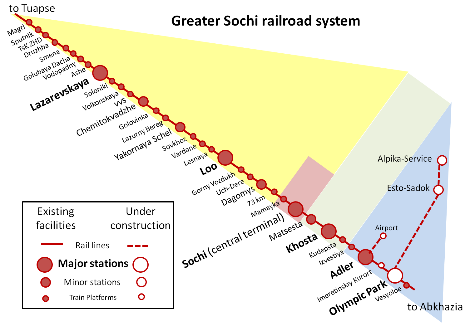 Sochi railroad system, Sochi Map of: Sochi¤.